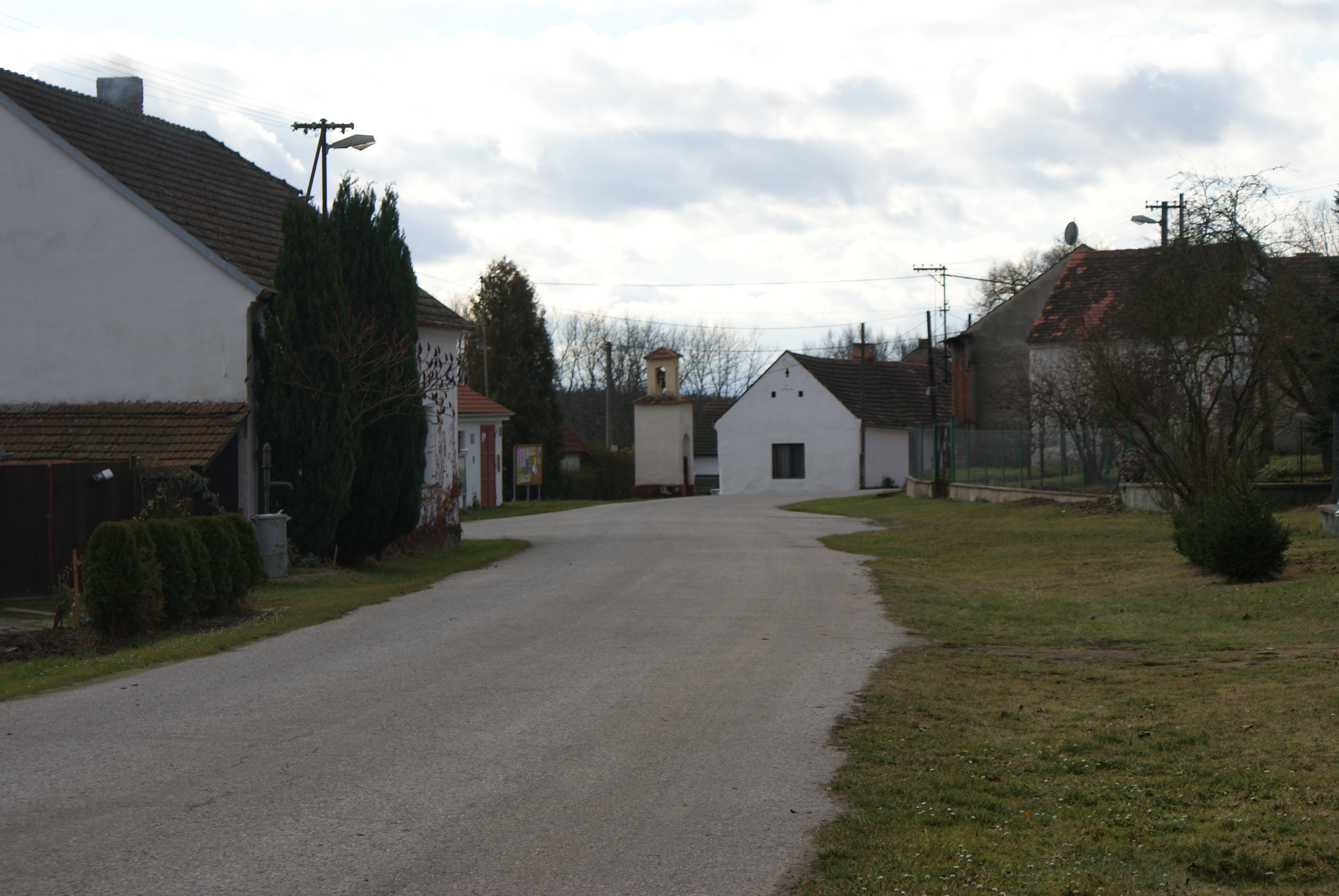 Main street with a chapel in Těšínov, part of Protivín, CZE